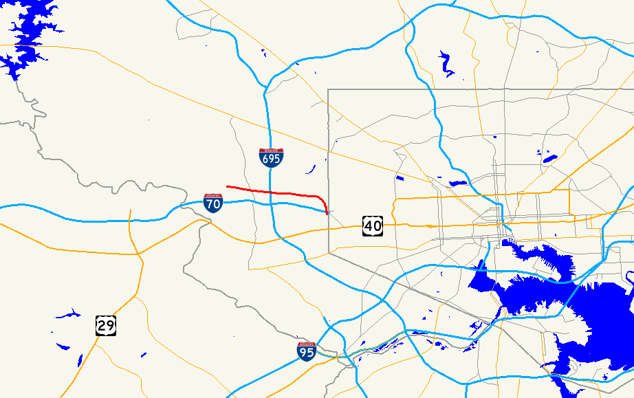 Map of Maryland Route 122